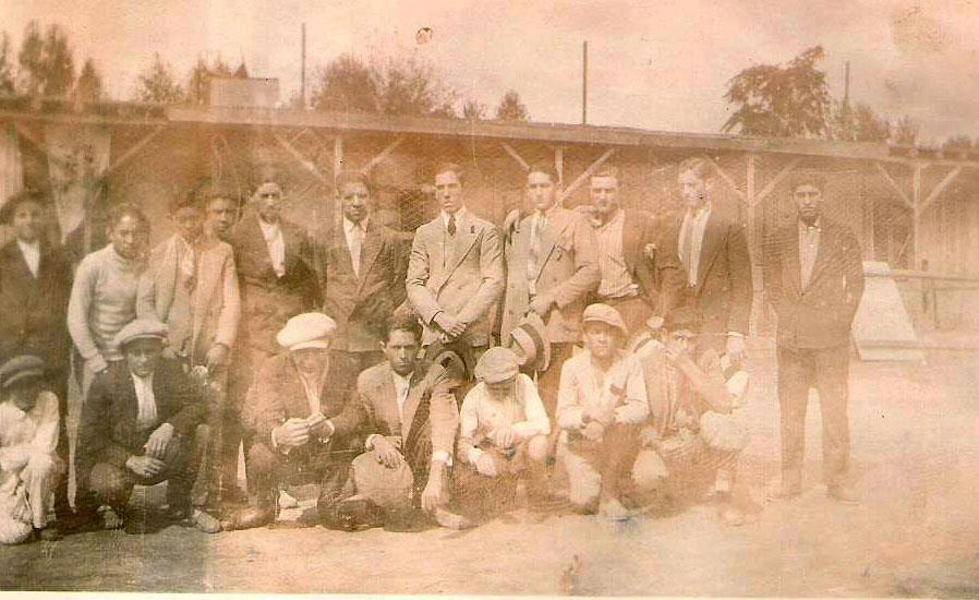 Founding members of Sportivo Godoy Cruz of Mendoza, Argentina.